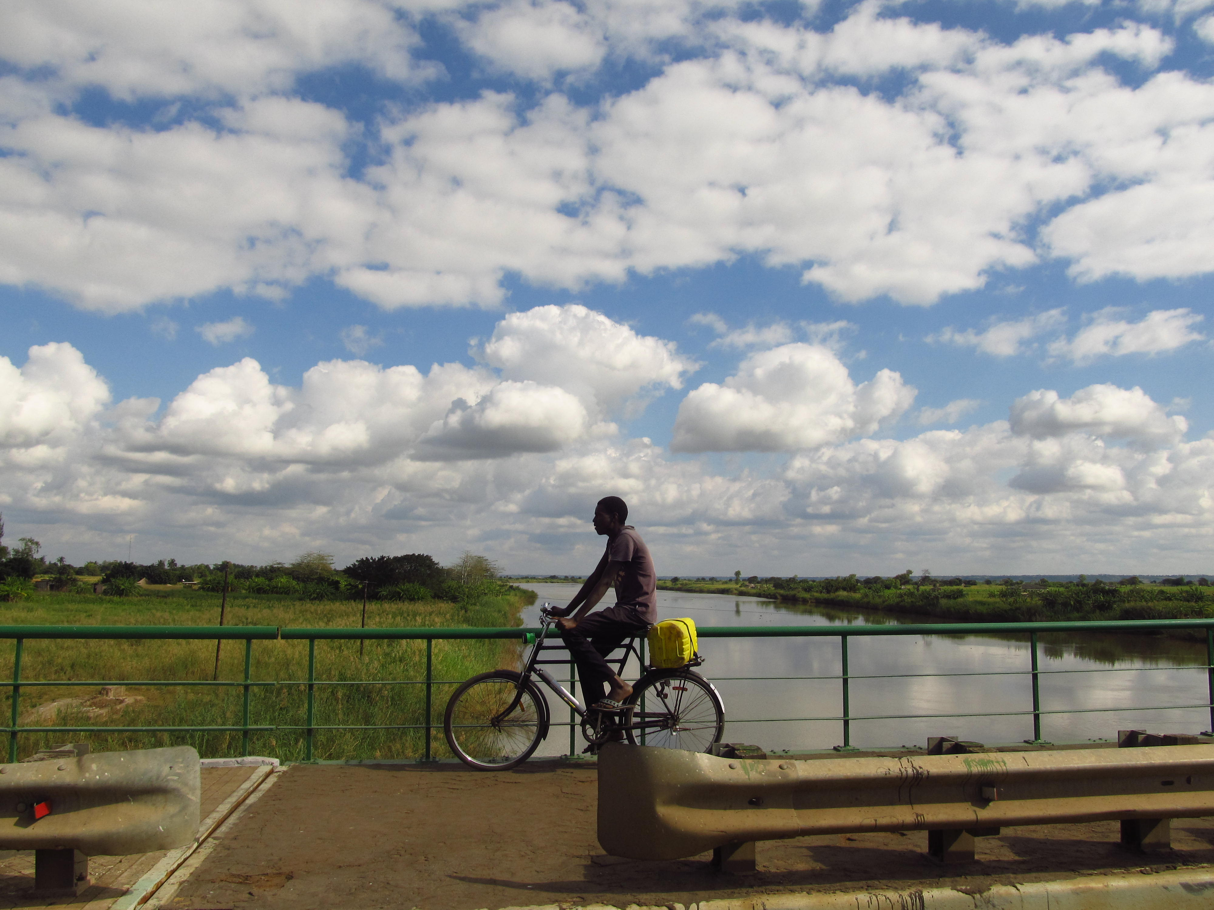 This is an image with the theme "Africa on the Move or Transport" from: Uganda